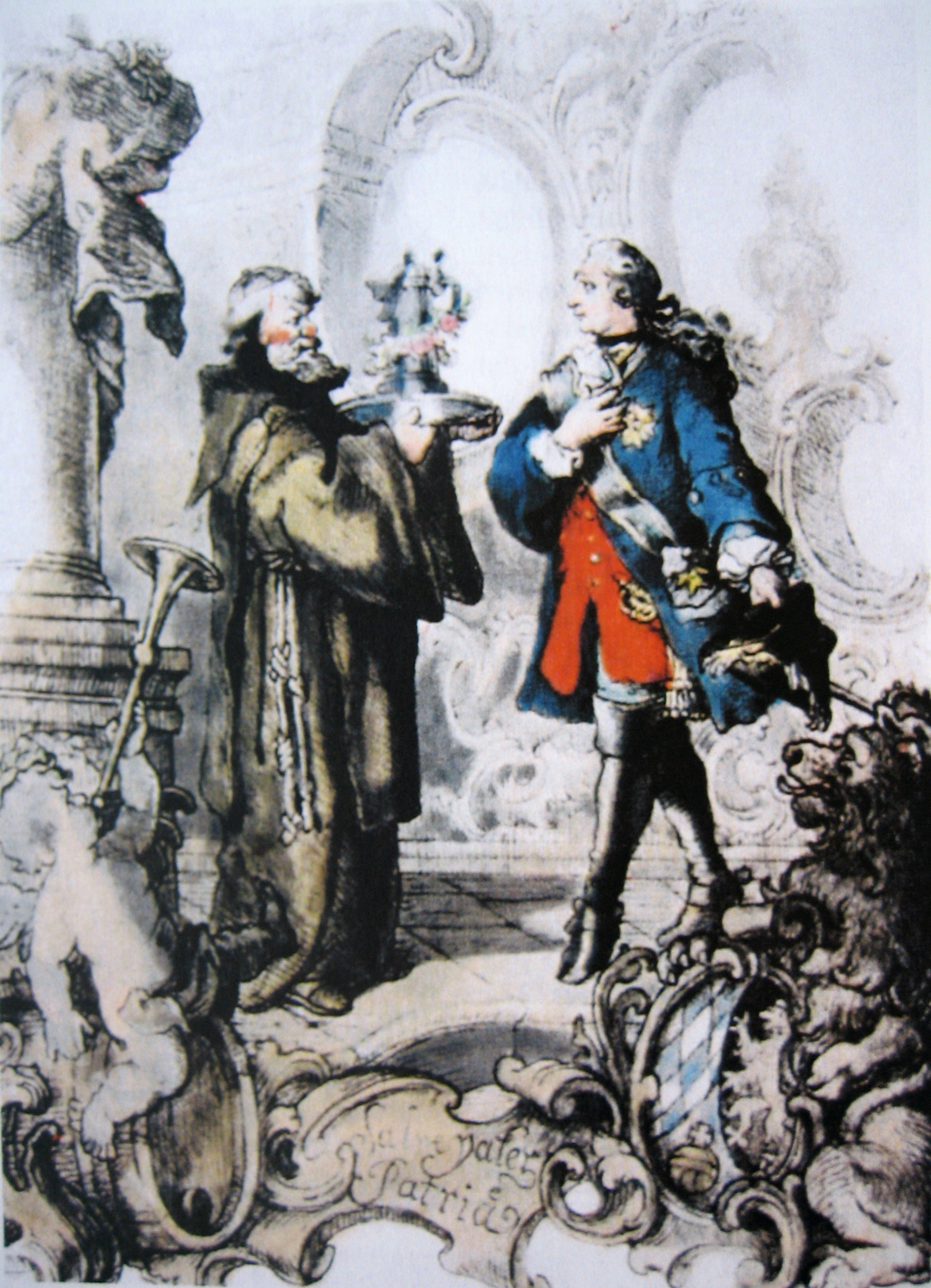 "Kredenz-Szene": Artistically dramatised depiction of a historical beer testing at the Munich Nockherberg (on an April 2 between 1778 and 1795). Paulaner brewer Friar Barnabas presents Prince-Elector Charles Theodore with a mug of Salvator-Bock. The inscription reads: "Salve pater patriae" (Latin "Hail, father of the fatherland").